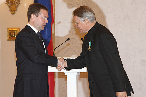 THE KREMLIN, MOSCOW. National Unity Day Reception. German theatre director Peter Stein was awarded the Order of Friendship.